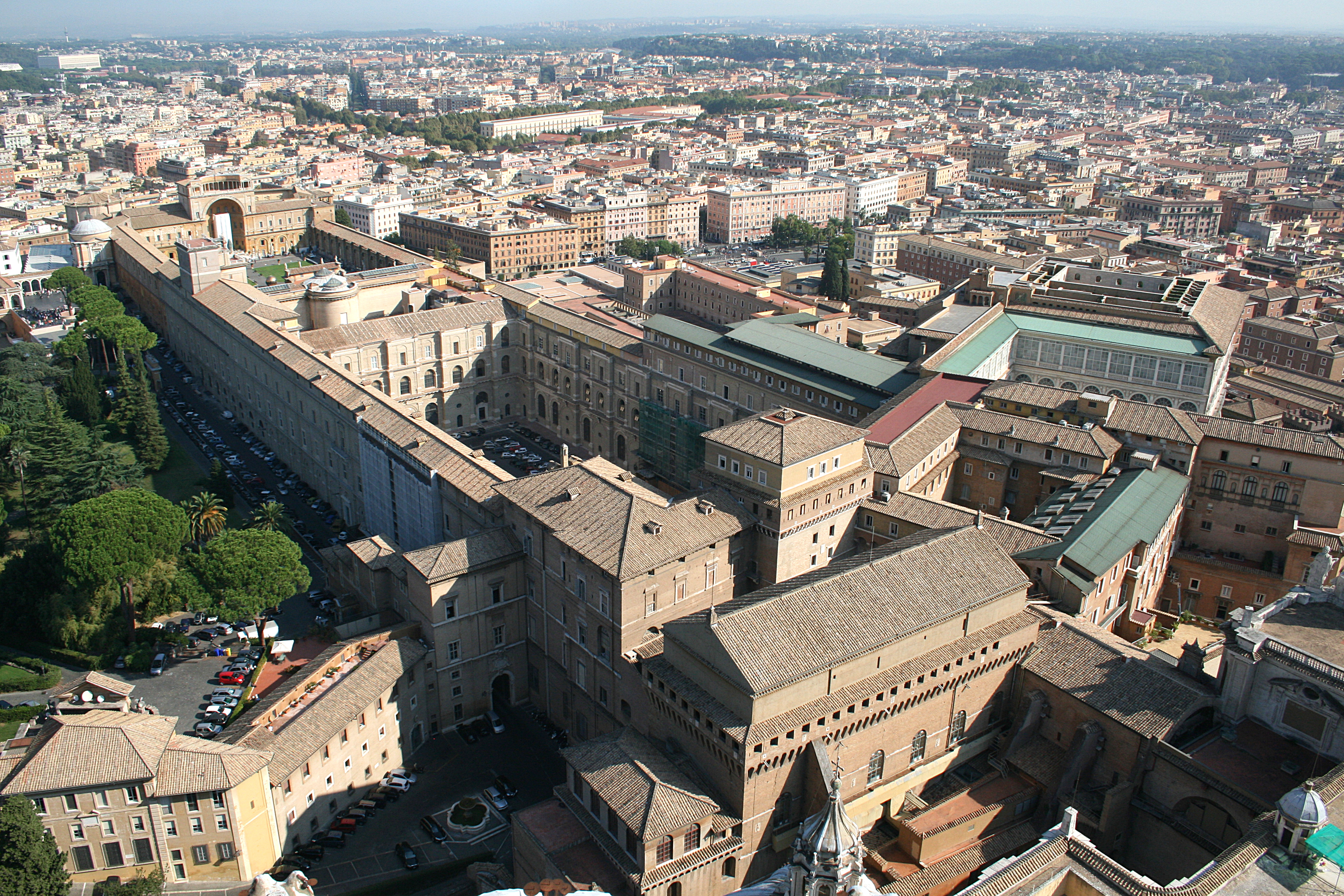 The Sistine Chapel, the Palace of the Belvedere and theVatican Museums.